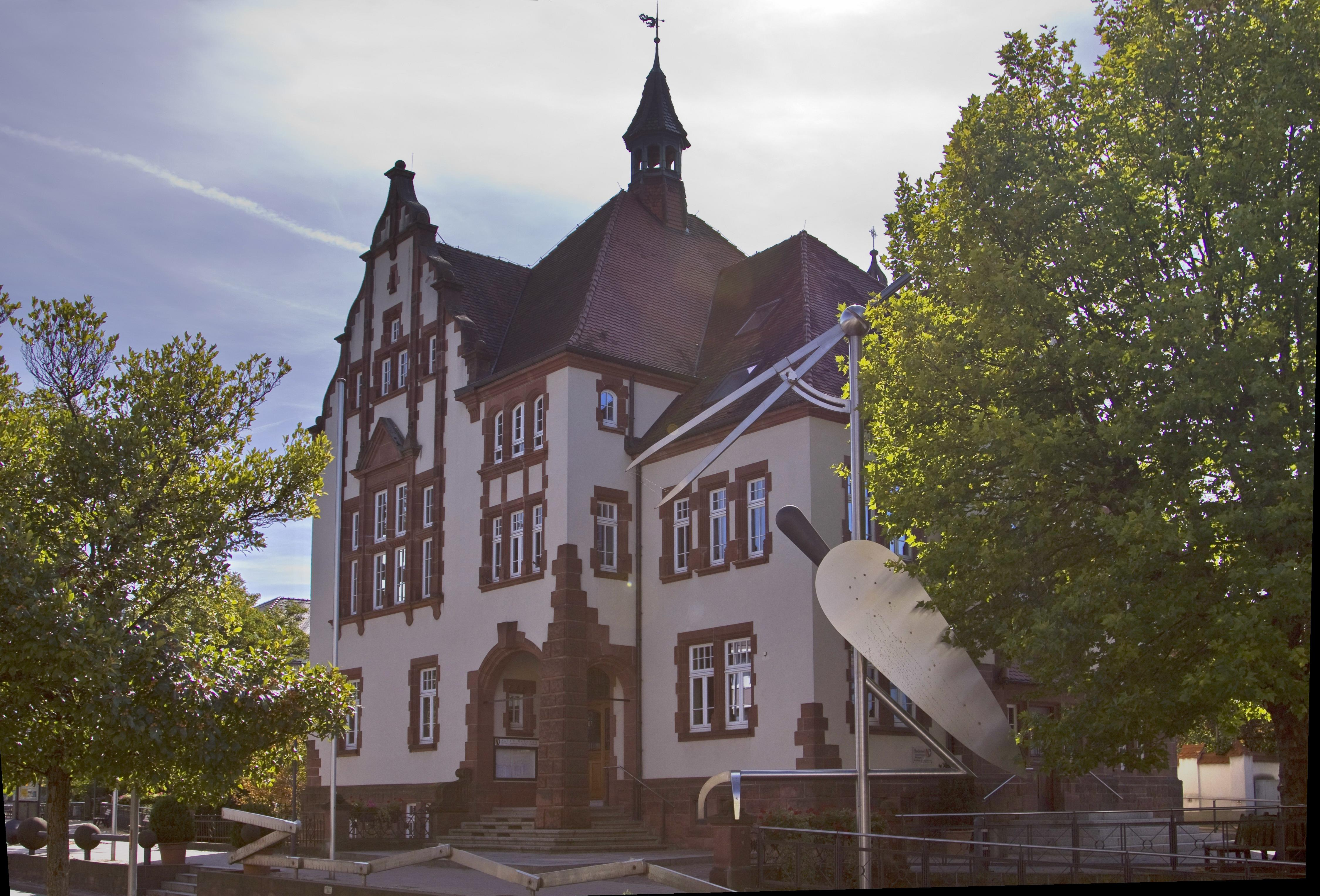 The old town hall in Denzlingen. The buildung was constructed in 1909 and renovated in 1998.